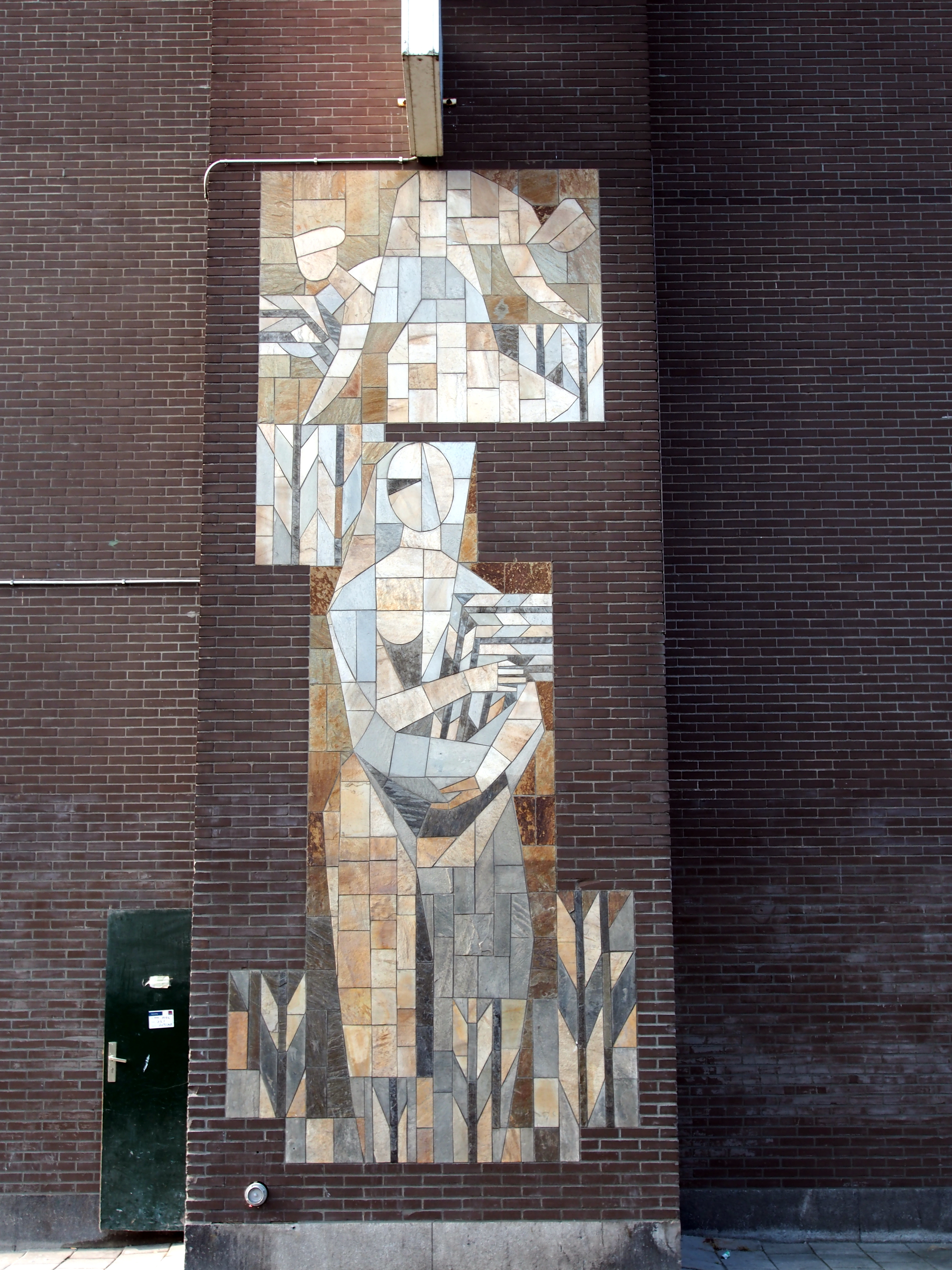 Photographed in Amsterdam.